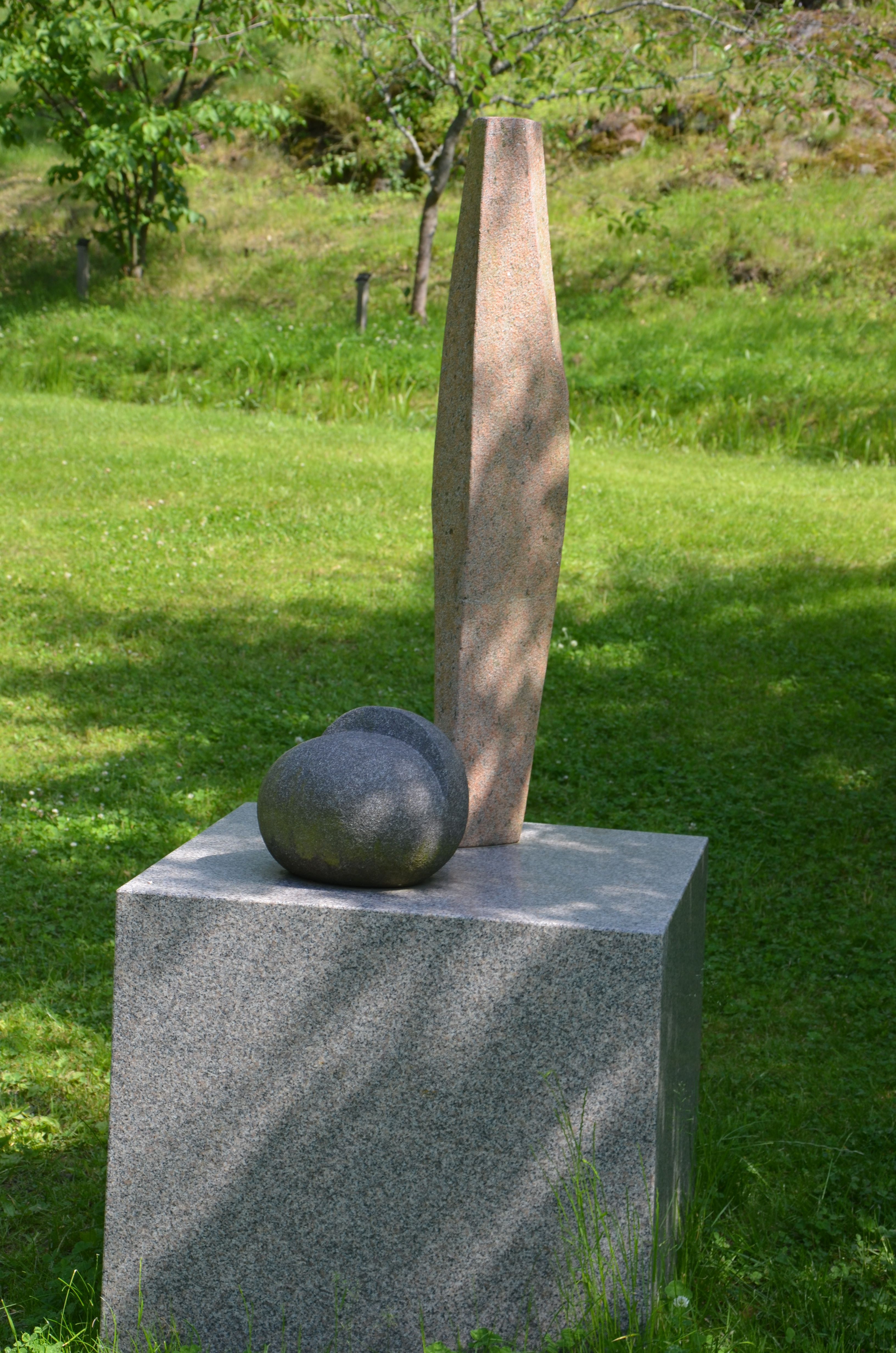 Lennart Källströms Moment, brons, 1971, Görvälns slotts skulpturpark